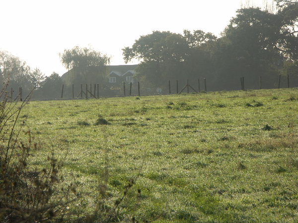 Pennington House, Nr Lymington, Hants.